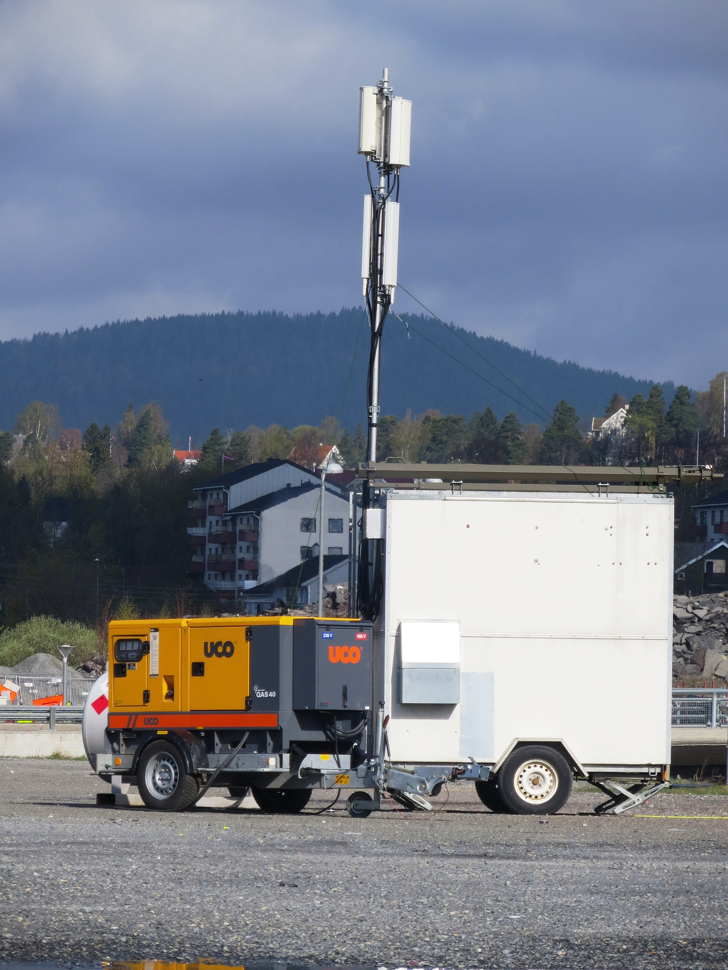 Movable base-stations for GSM (2G) and/or UMTS (3G) coverage, installed povisionary in Oslo to support existing coverage. Outside Telenor Arena at Fornebu, Norway.